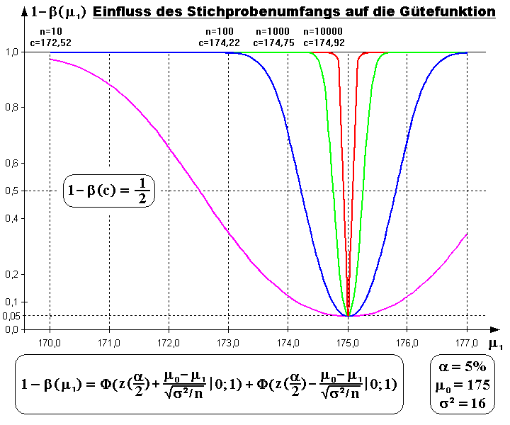 Influence of the sample size on the power function of a two-sided statistical test